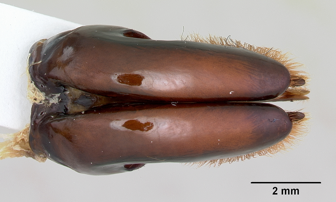 Dorsal view of ant Dorylus nigricans specimen casent0172641.